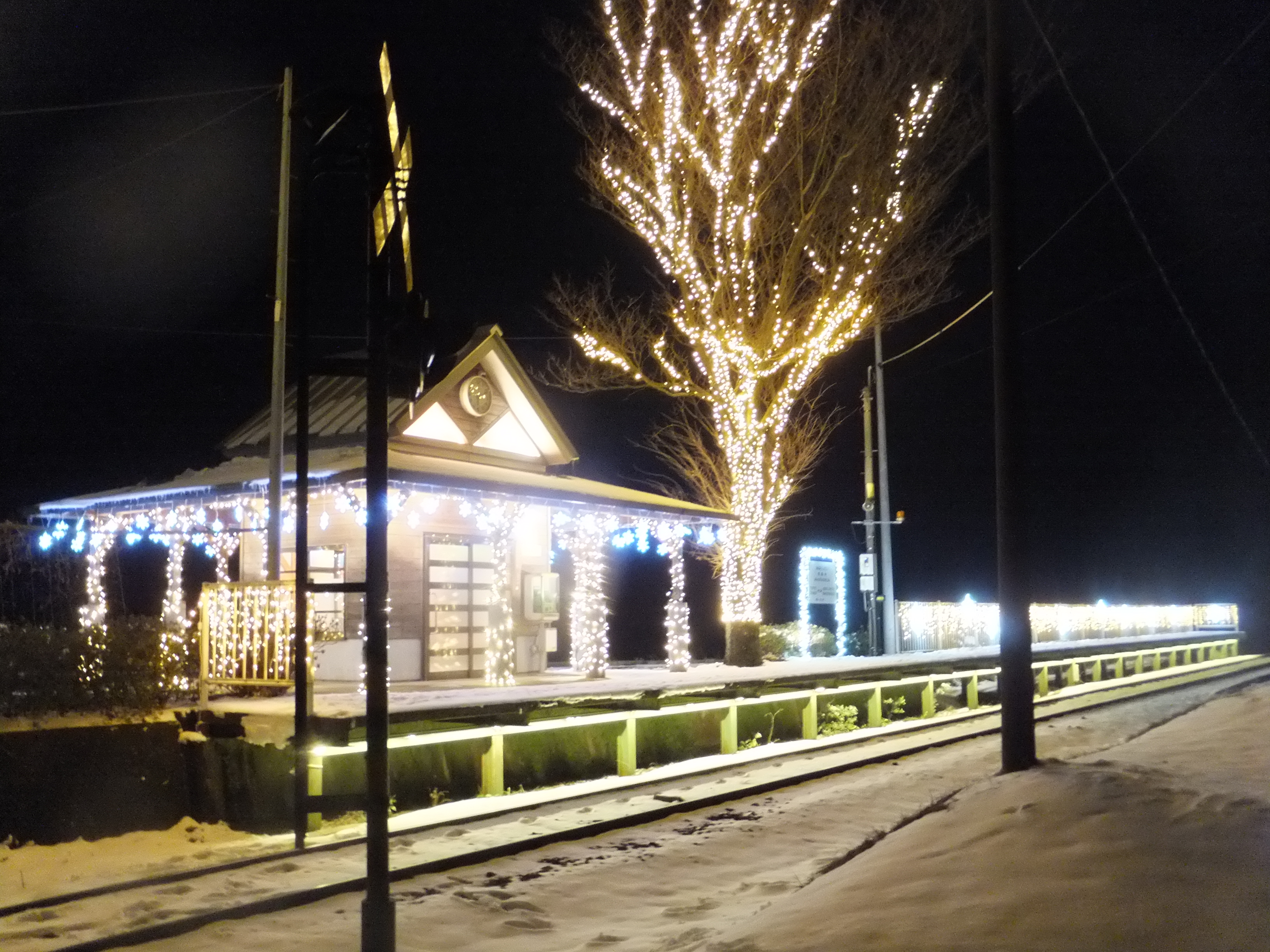 Minami Aso Railway Miharashidai Station Fujifilm FinePix F600EXR